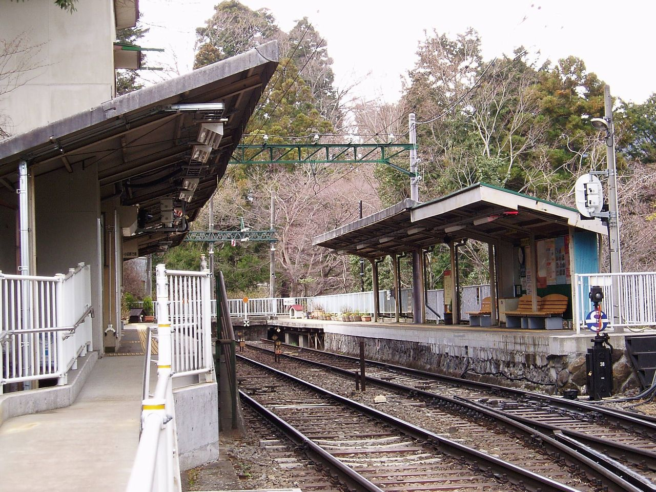 Ohiradai Station, on the Hakone Tozan Line, Hakone, Kanagawa 大平台駅